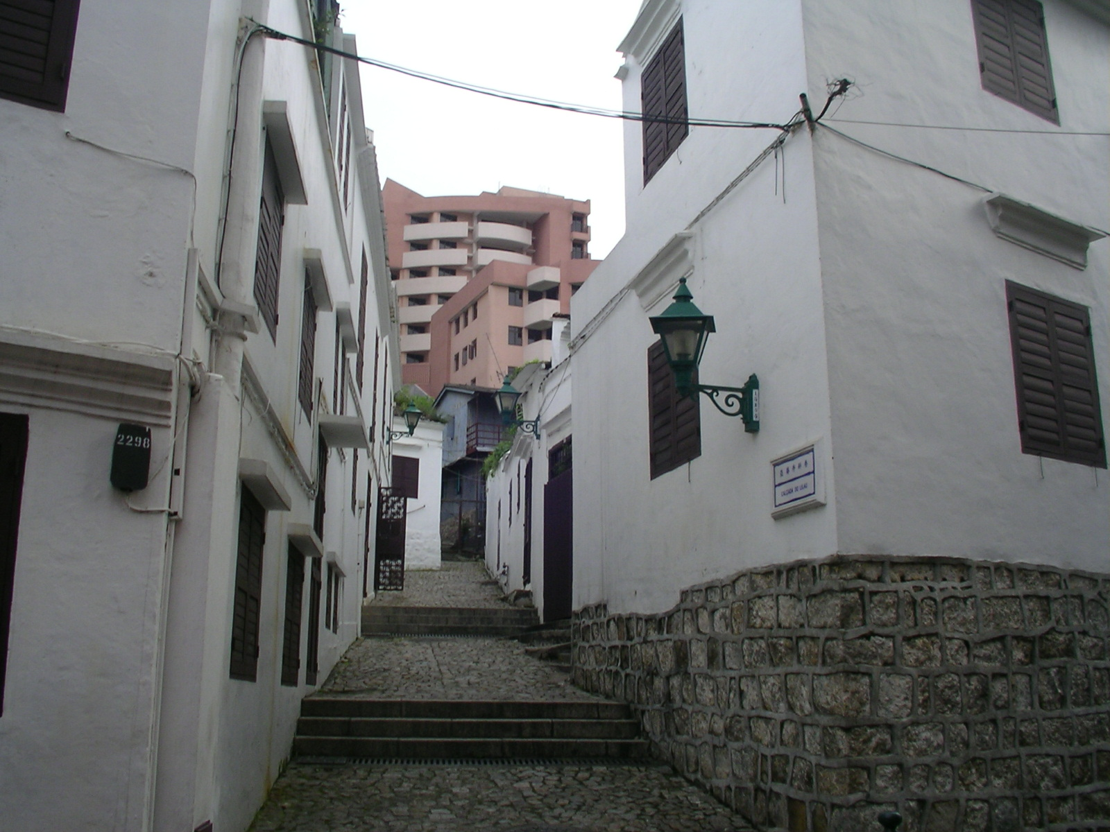 This is the Calçada do Lilau in Macau.